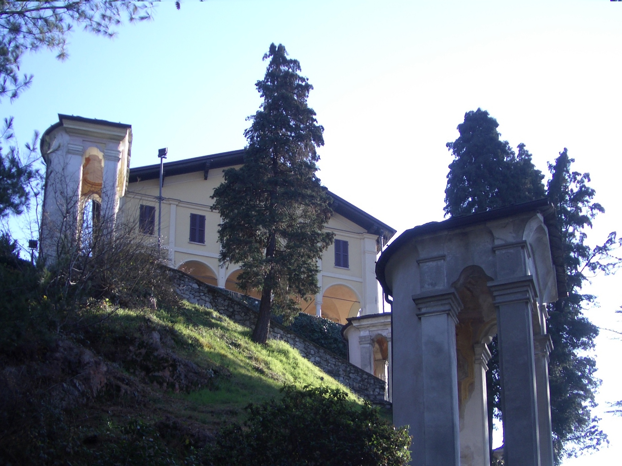 Photo of the Sanctuary of Sant'Anna di Montrigone (XVII century), Borgosesia (VC), Italy